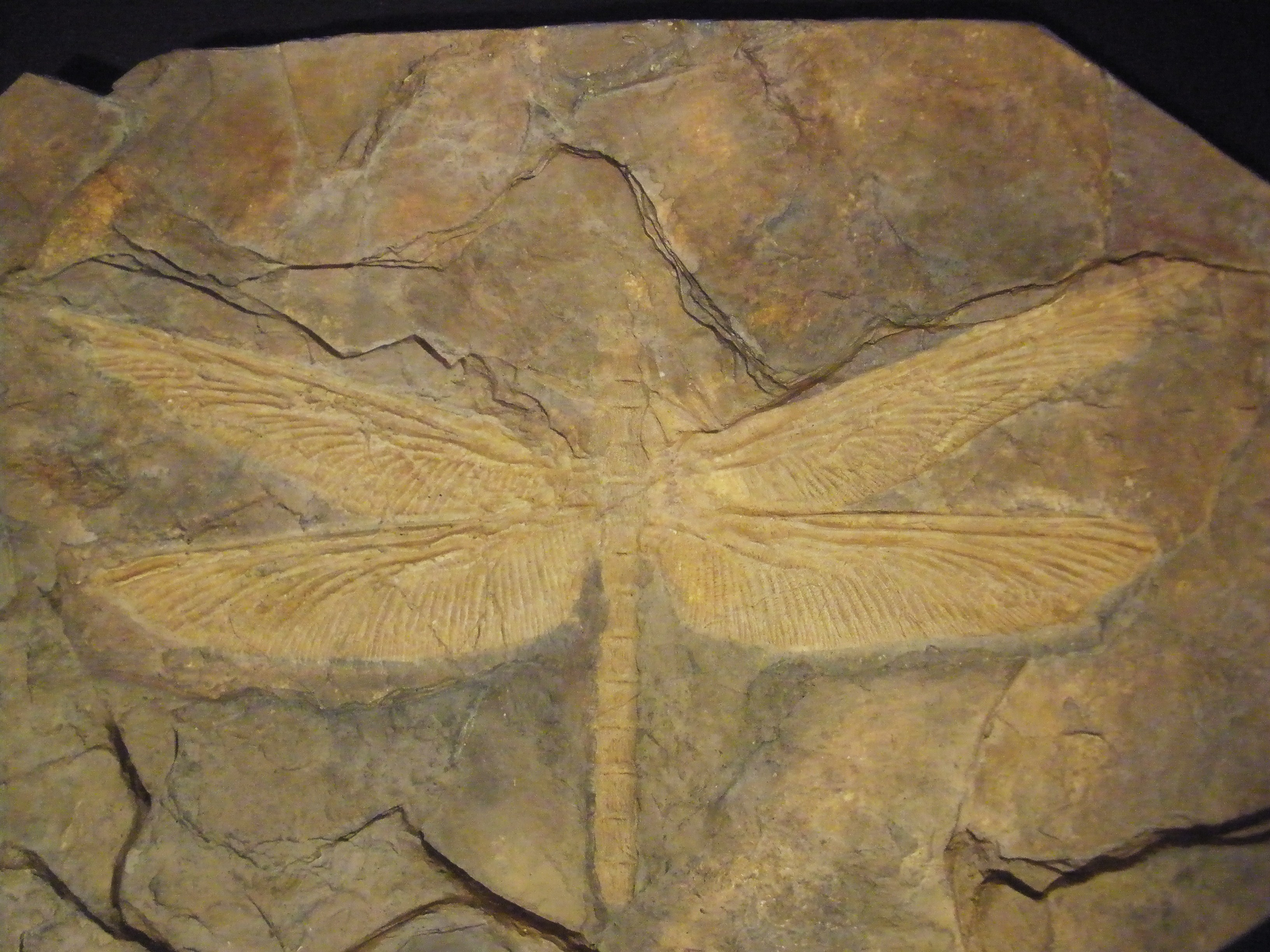 fossil meganeura